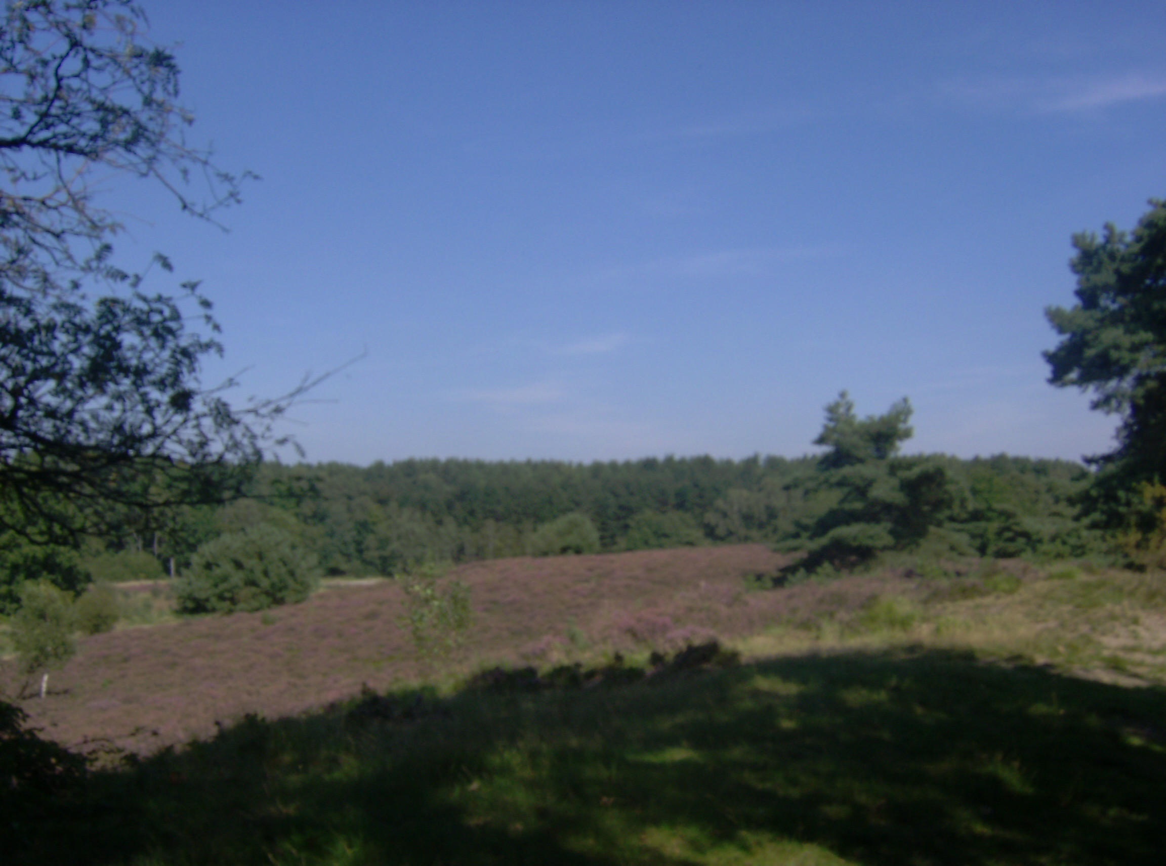 An overview of the Brunssummerheide